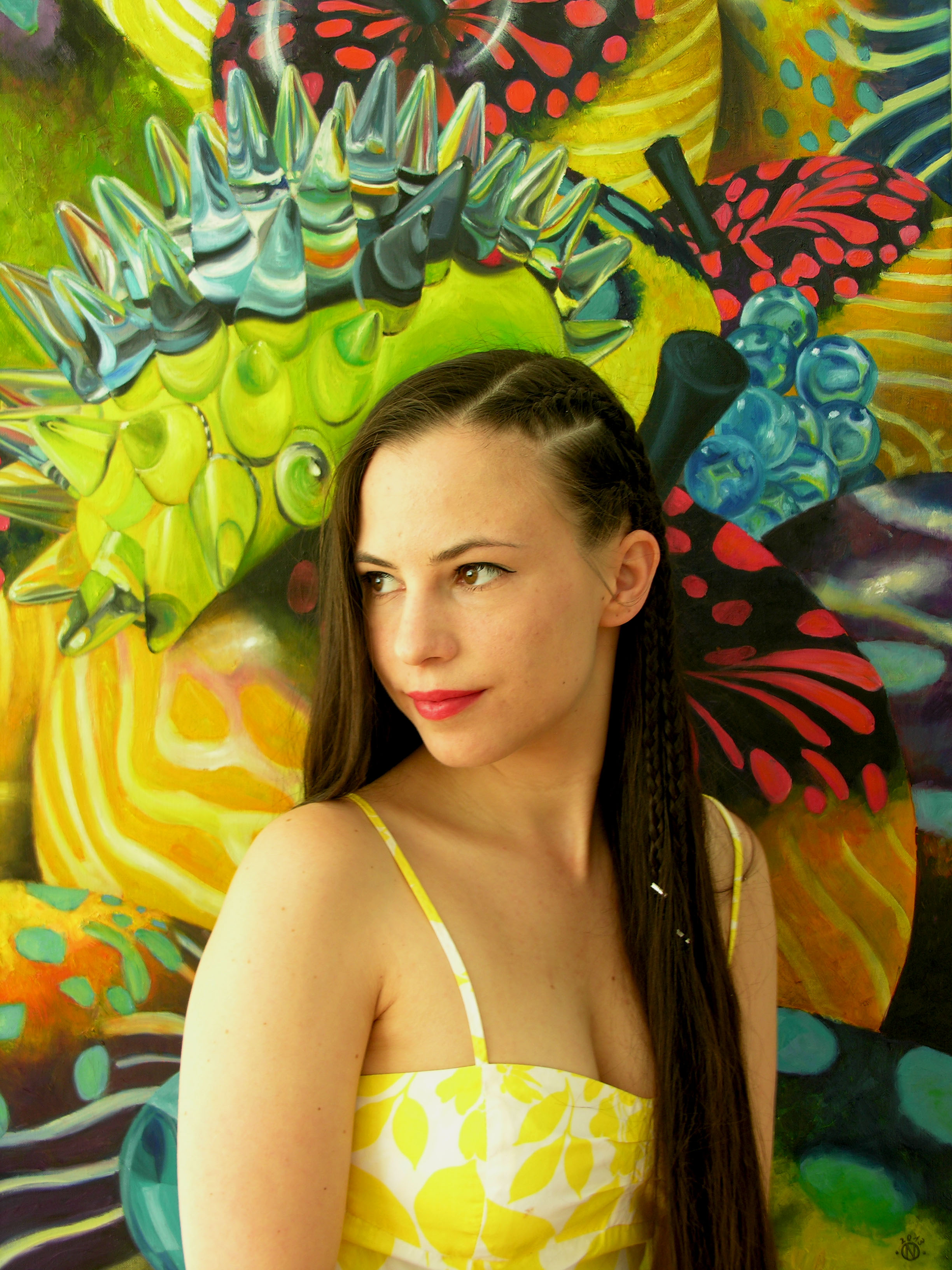 Naomi Devil in her studio in 2013 in front of one of her paintings titled Tempation Multicolor